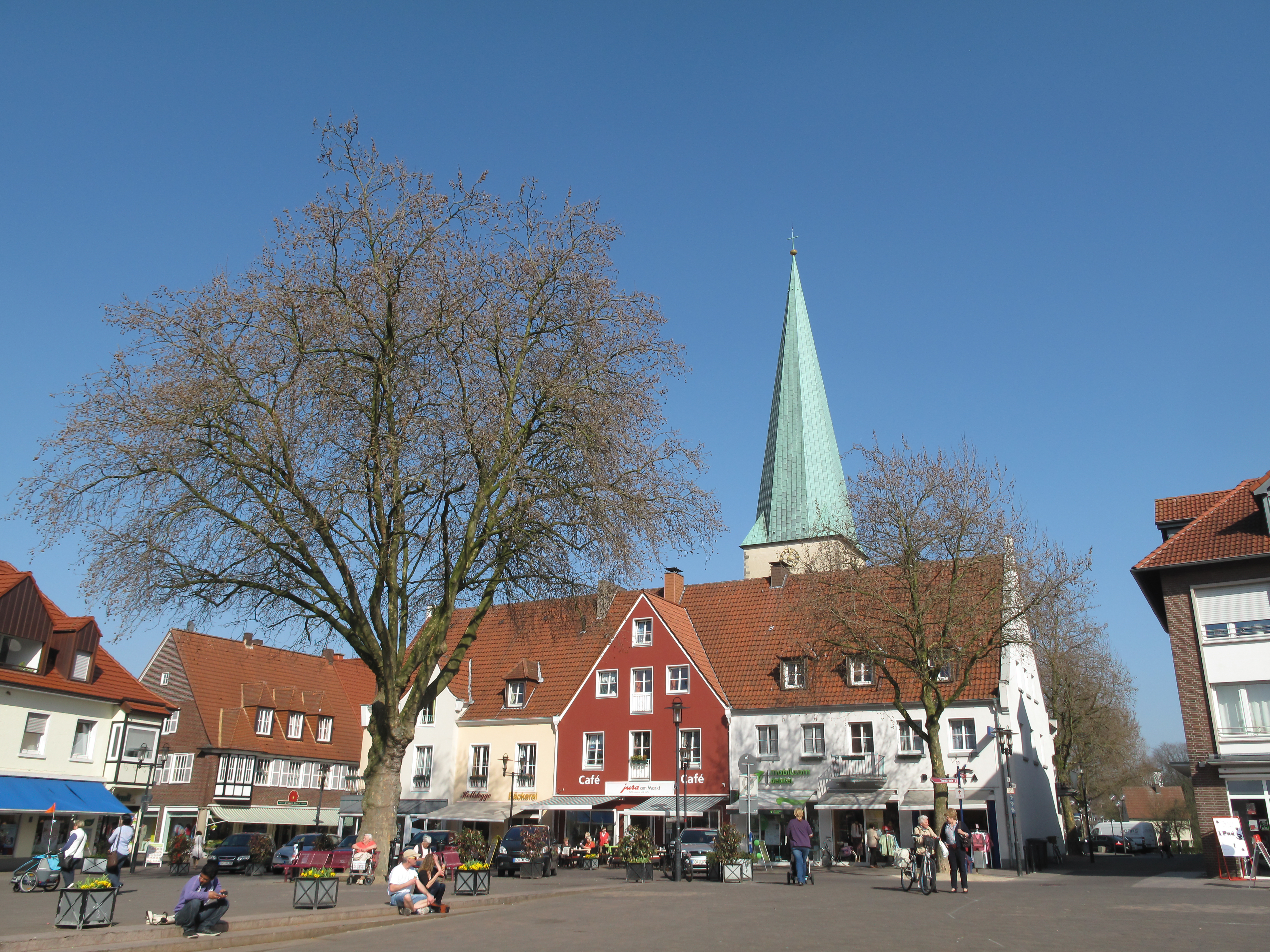 Borken, suare with churchtower